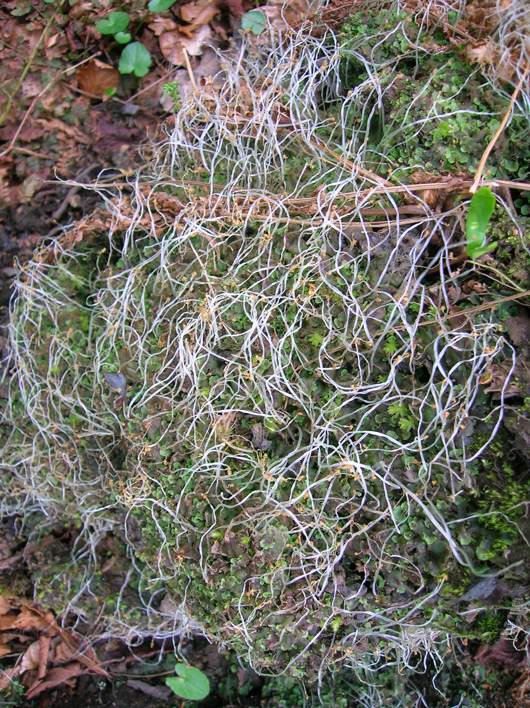 The Bryophyte Pellia epiphylla with fully developed setae at Spier's Old School Grounds, Beith, North Ayrshire, Scotland